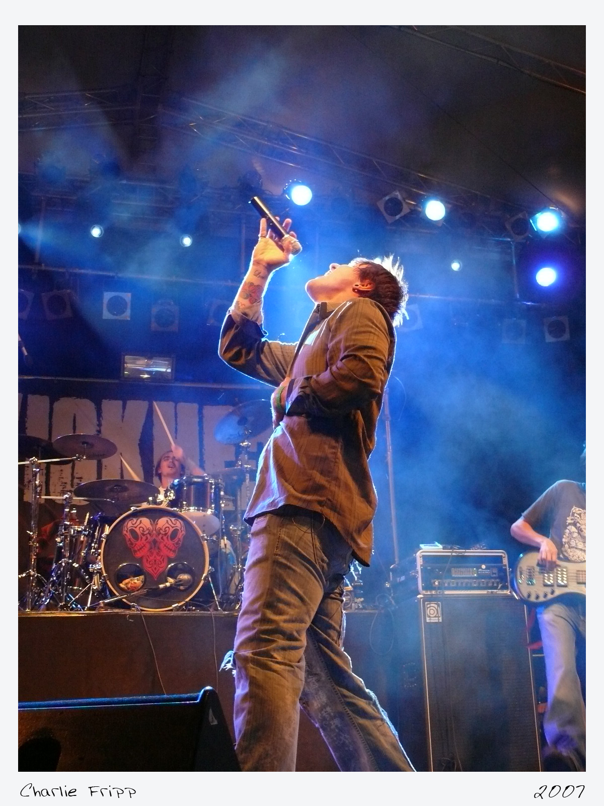 Wickhead during their performance at 2007's Woodstock music festival.